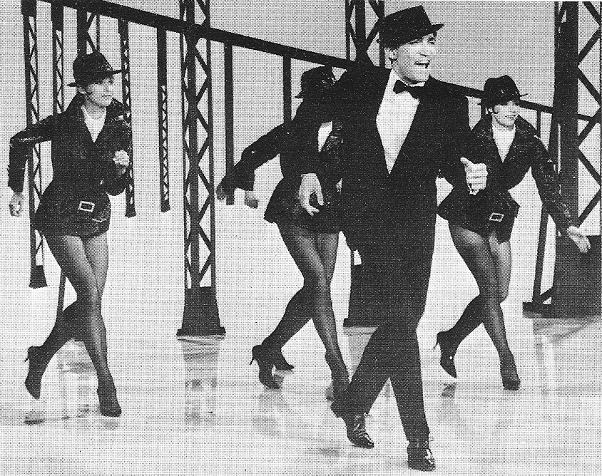 Sergio Franchi Sings & Dances to "Chicago" in Italian; Meredith Willson TV Special